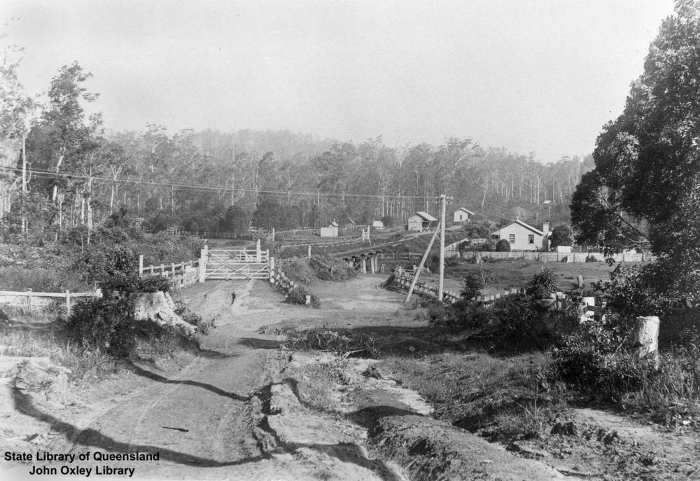 View over the Eudlo Railway Station, Eudlo, 1907. Looking down an unsealed road to the closed railway gates at Eudlo. The railway station and other town buildings are visible in the background.